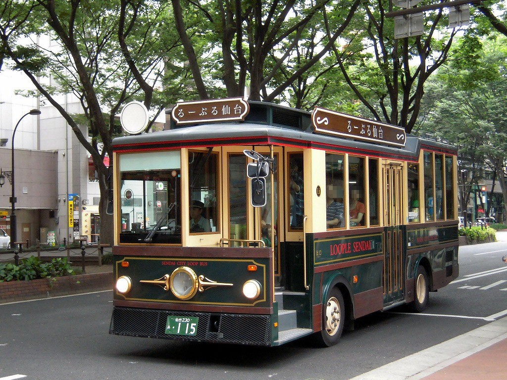 Sendai city roop bus "Roople Sendai" Hino Rainbow RJ